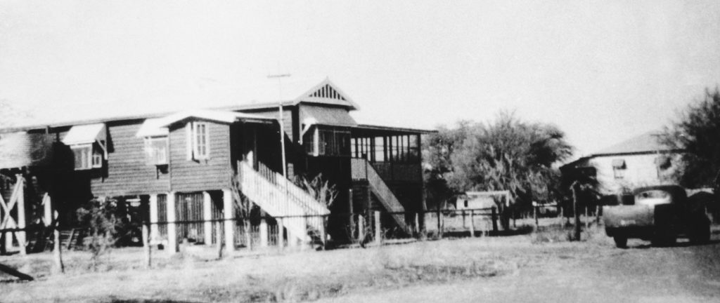 MacKinlay Police Station, c1950. Somewhere along the way MacKinlay became McKinlay. The Police Station was opened in 1893 and it is currently staffed by a female Senior Constable. Image No. PM1509 Courtesy of the Queensland Police Museum.